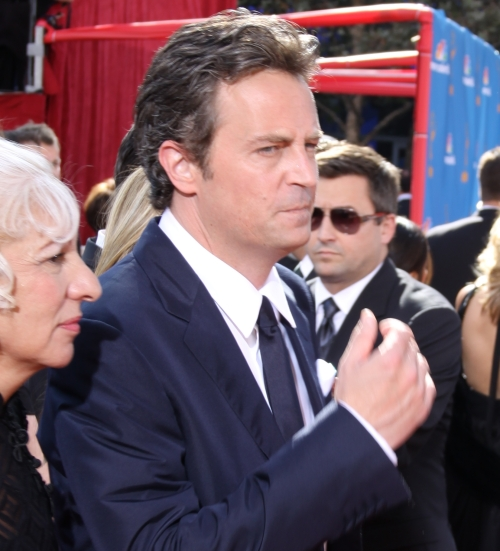 Matthew Perry matthew-perry-300x257.jpg